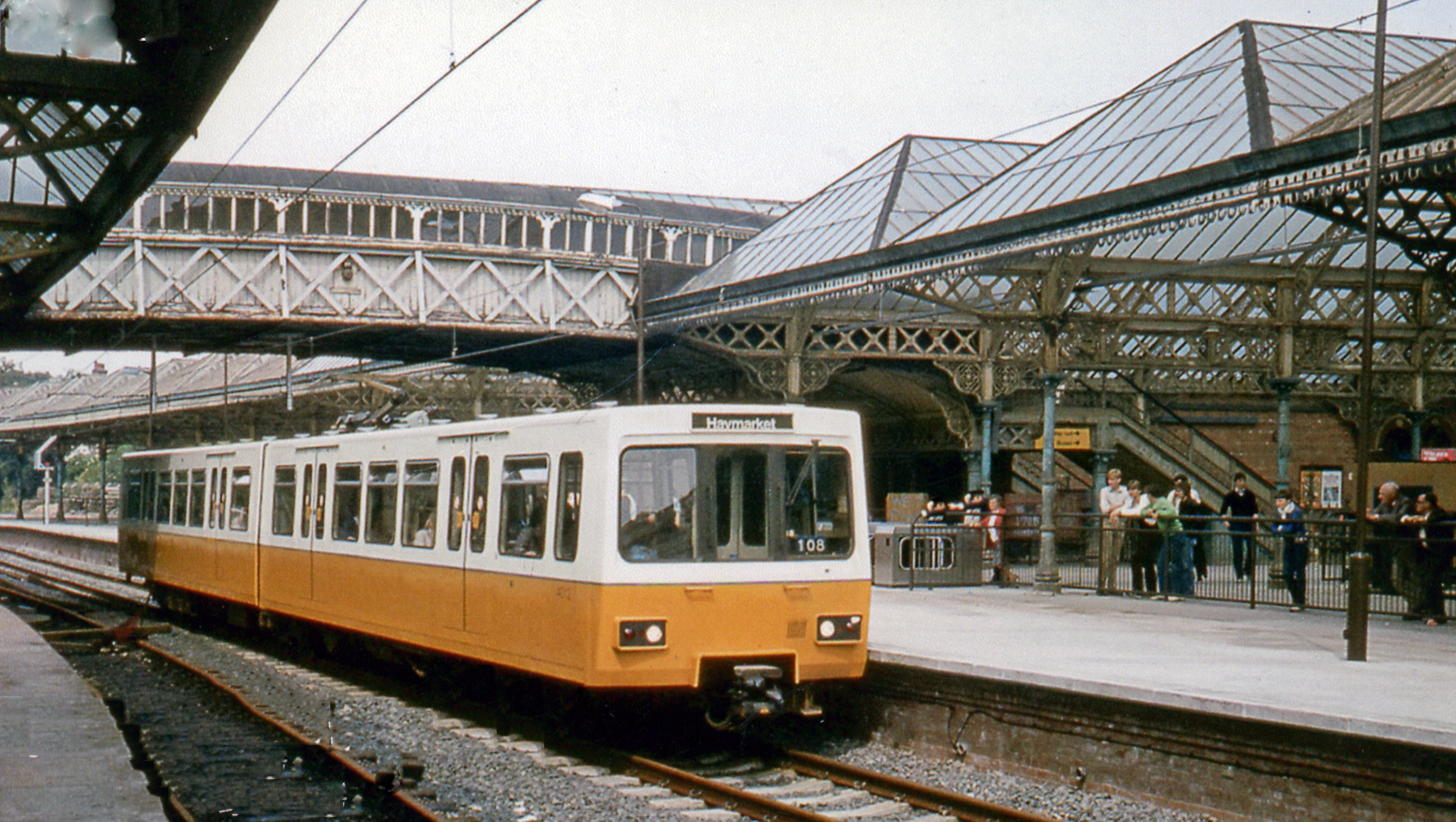 Tynemouth station, with Metro train, 1980View northward, towards Monkseaton: ex-NER/LNER North Tyneside electric lines, recently converted to Tyne & Wear Metro. The train is headed for Haymarket via Wallsend.